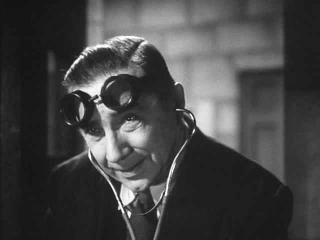 Bela Lugosi in "The Devil Bat" (1940), which is now in the public domain.